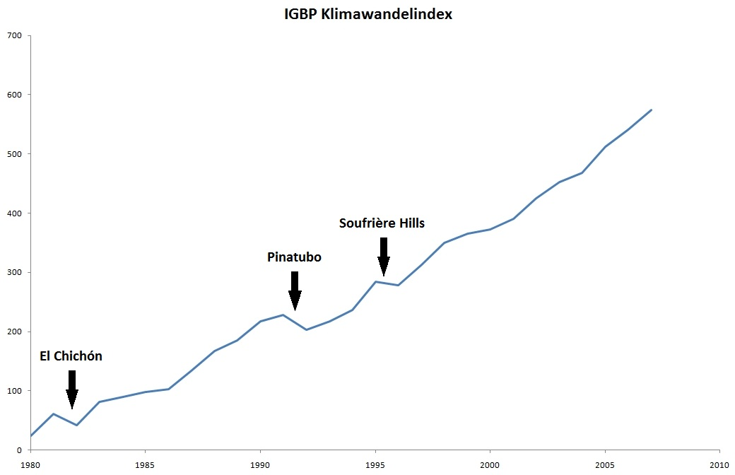 IGBP Climate-Change Index Global-change trends for the public and policymakers Launched in Copenhagen, 9 December 2009